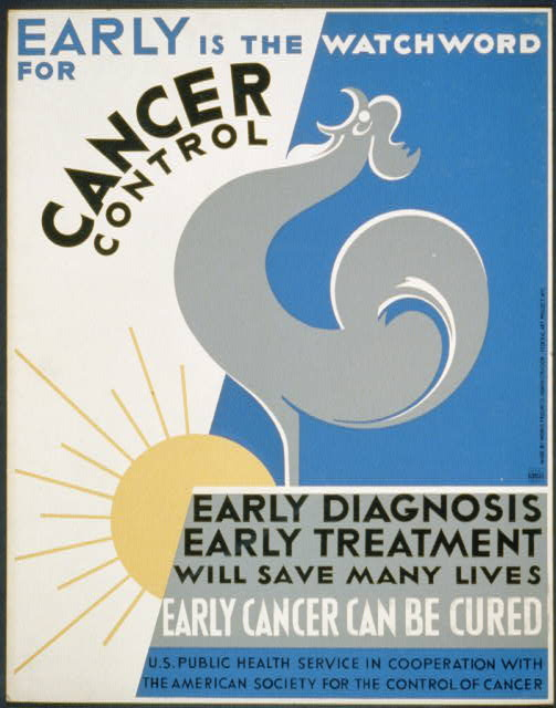 Poster promoting early diagnosis and treatment for cancer, showing a rooster crowing at sunrise.